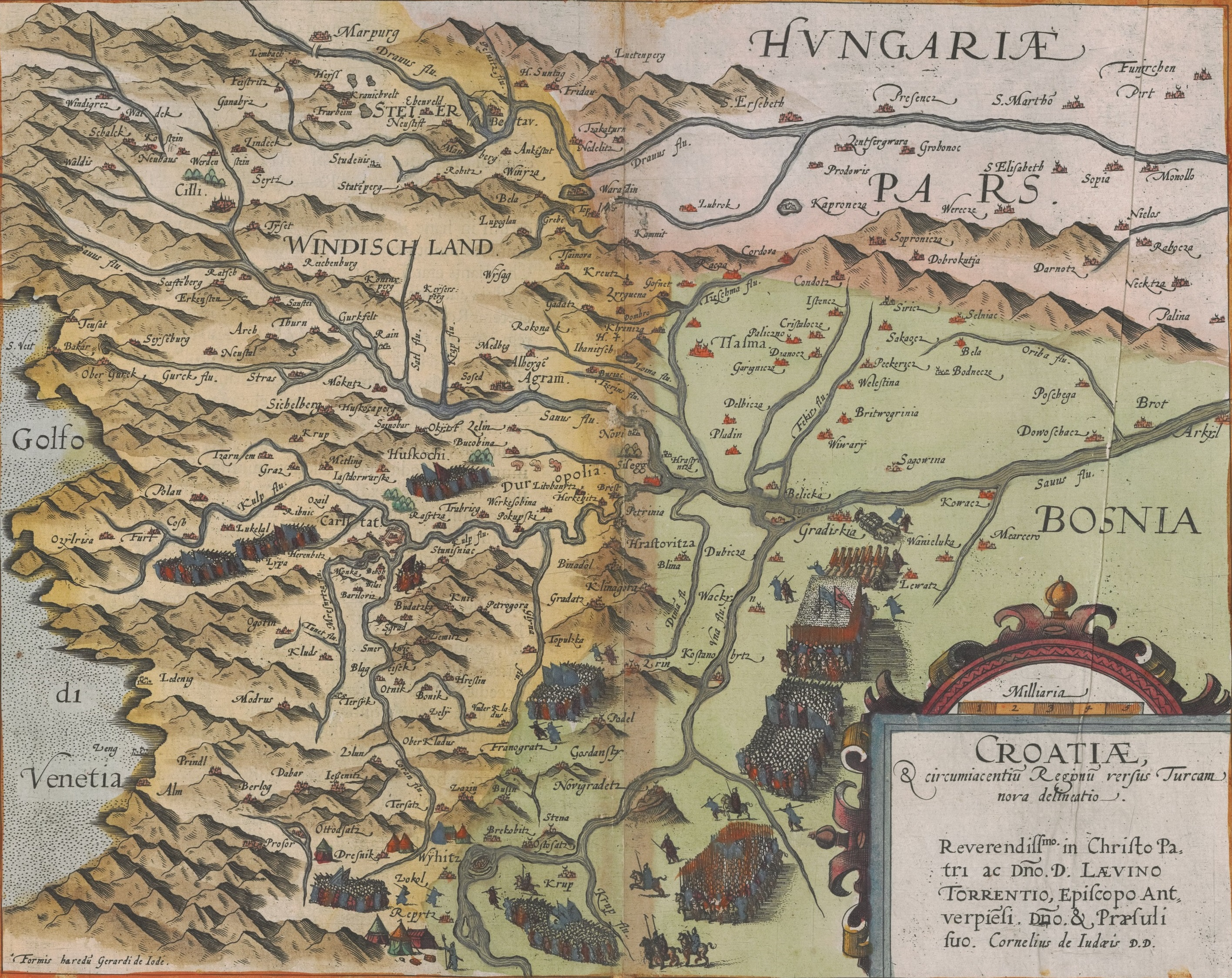 A map of Croatia from 1593, depicting the Ottoman-Croatian wars in the 1590s. More information about the map